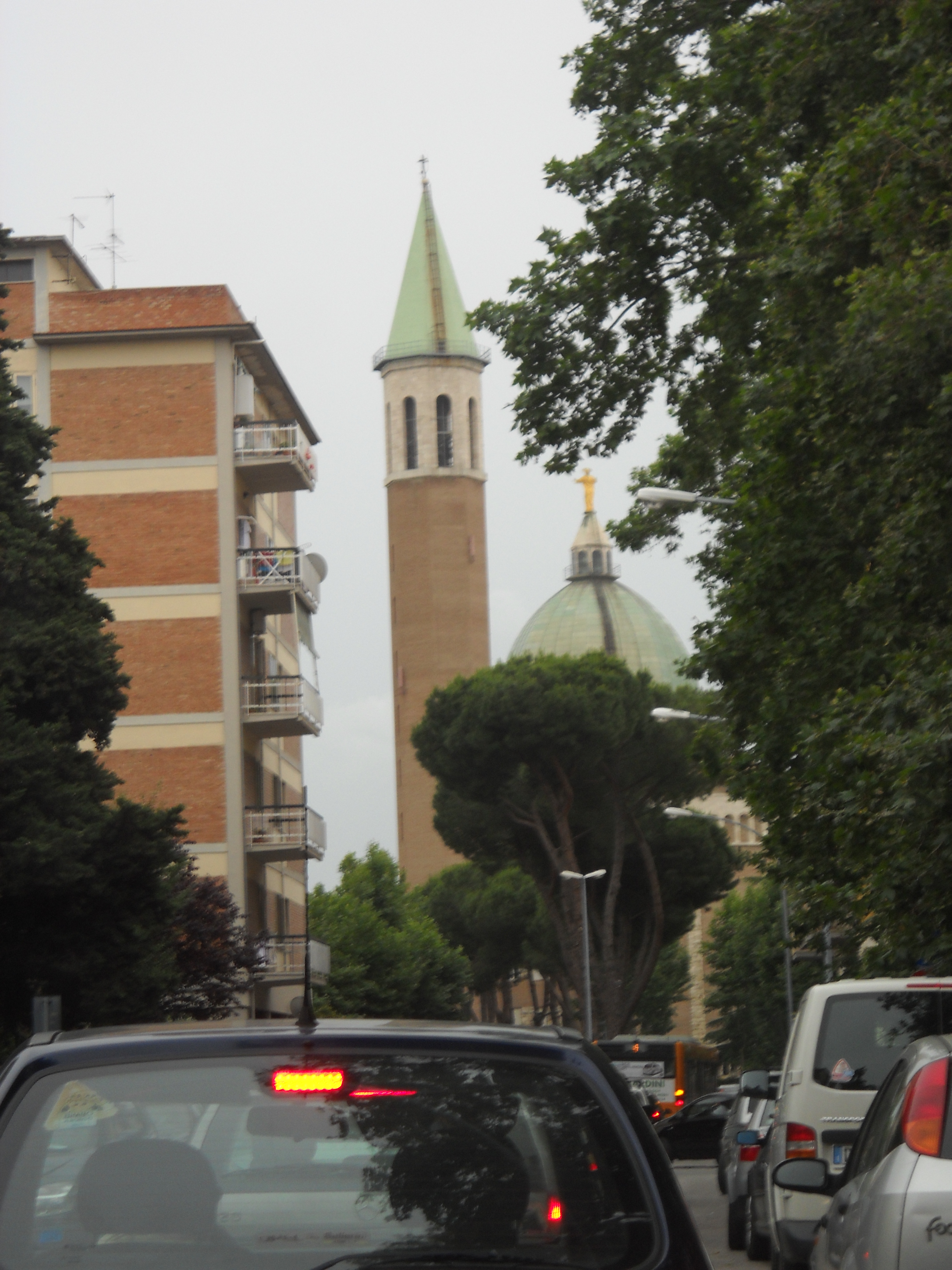 View of Sacro Cuore in Grosseto from via Abruzzi